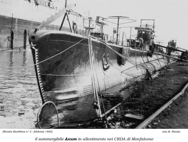 RIN Axum